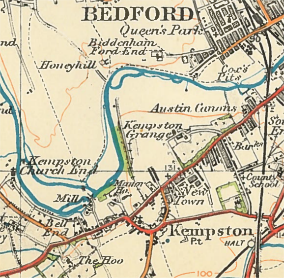 Detail from Ordnance Survey Popular One Inch Edition Sheet 84 showing the Kempston Gravel Tramway.